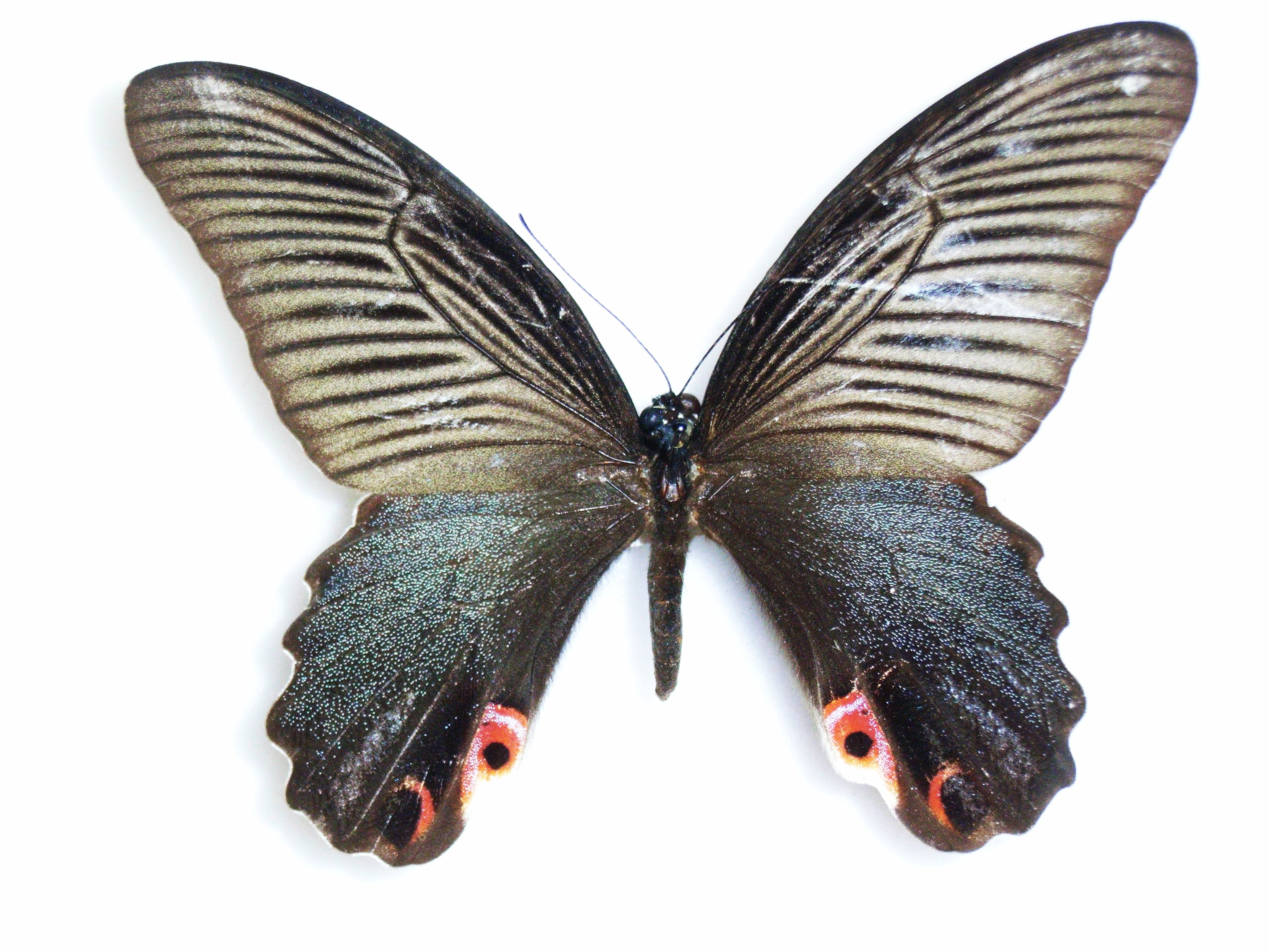 Papilio protenor Cramer, [1775]Female